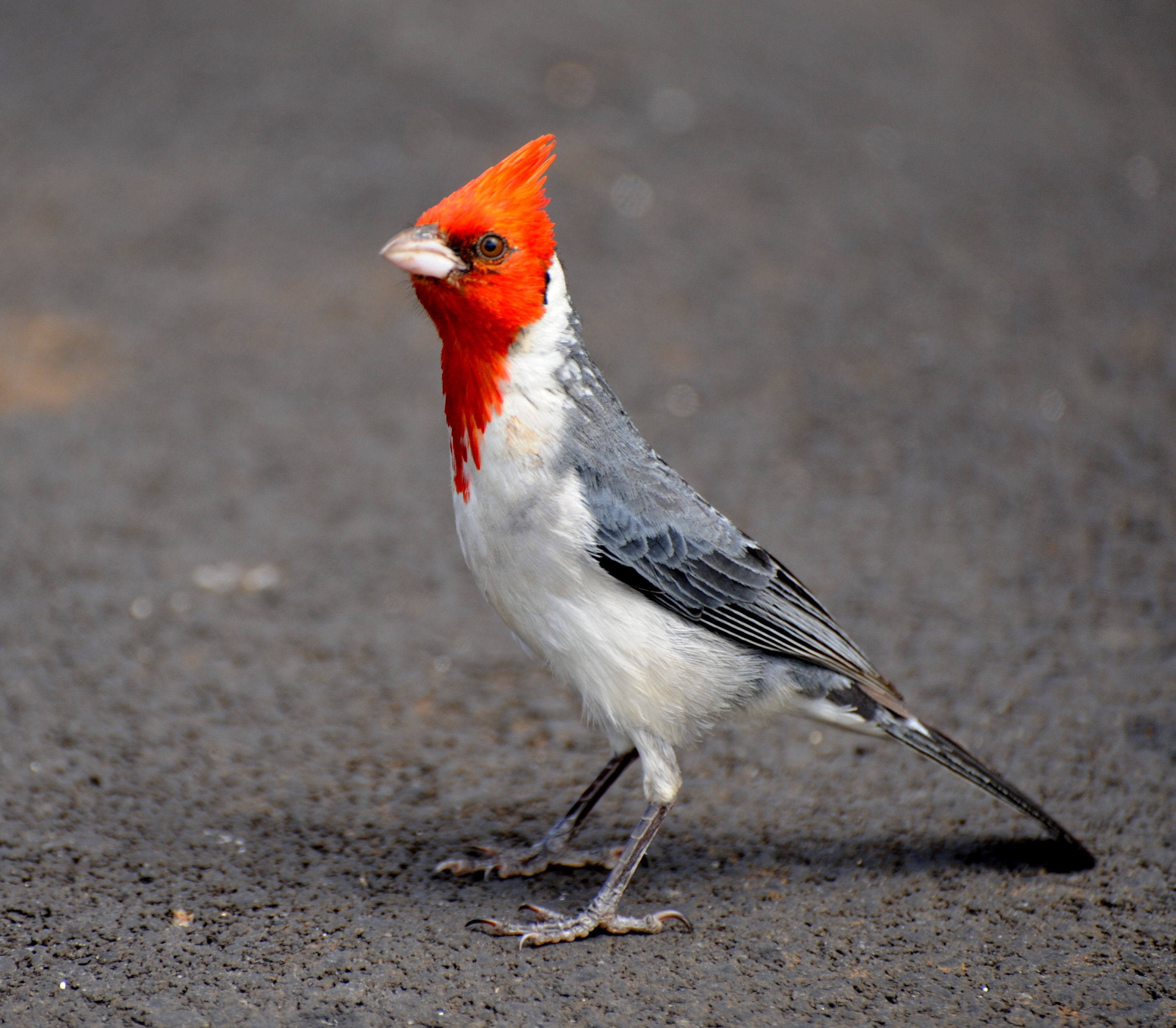 A Red-crested Cardinal at Koke'e State Park, Hawaii, USA.